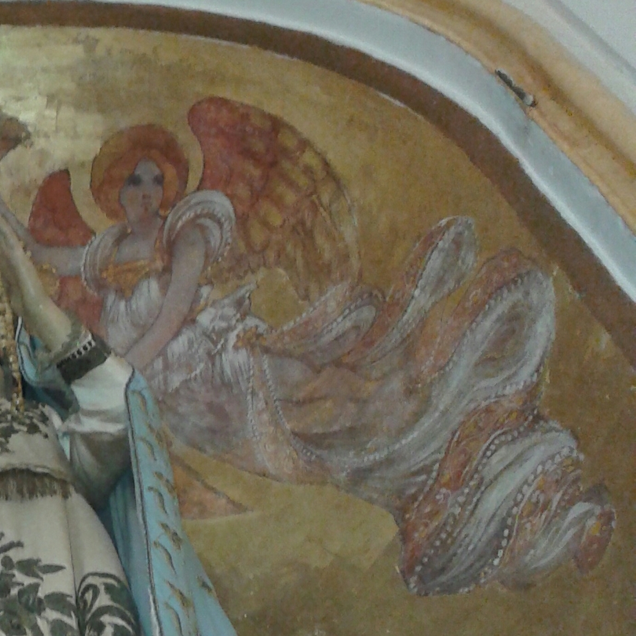 Alpinolo Magnini, Angeli svolazzanti reggenti una corona di fiori, anni '30, angelo di sinistra